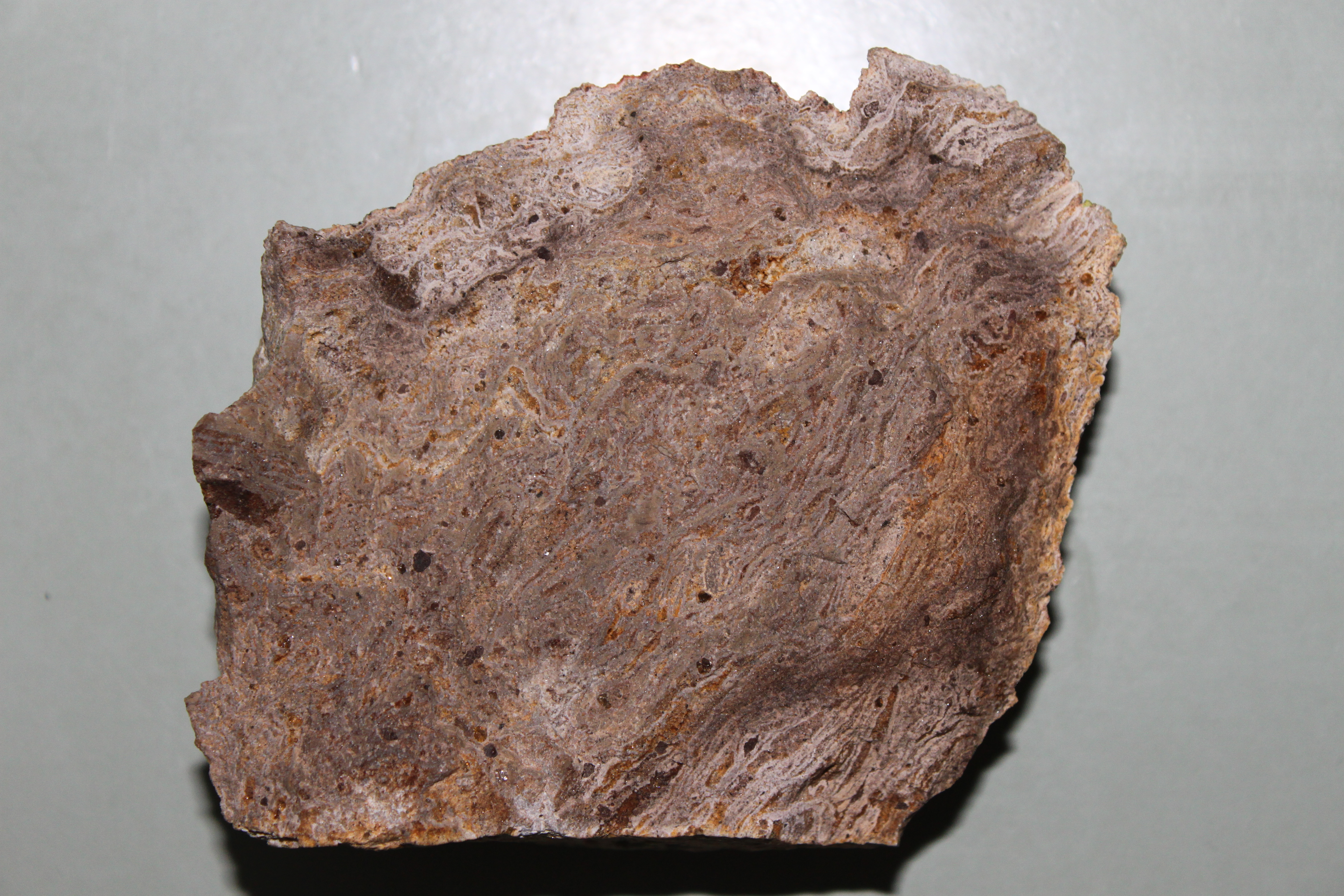 A sample of Allandale Rhyolite from the conical hill dome at the head of Lyttelton Harbour, New Zealand.